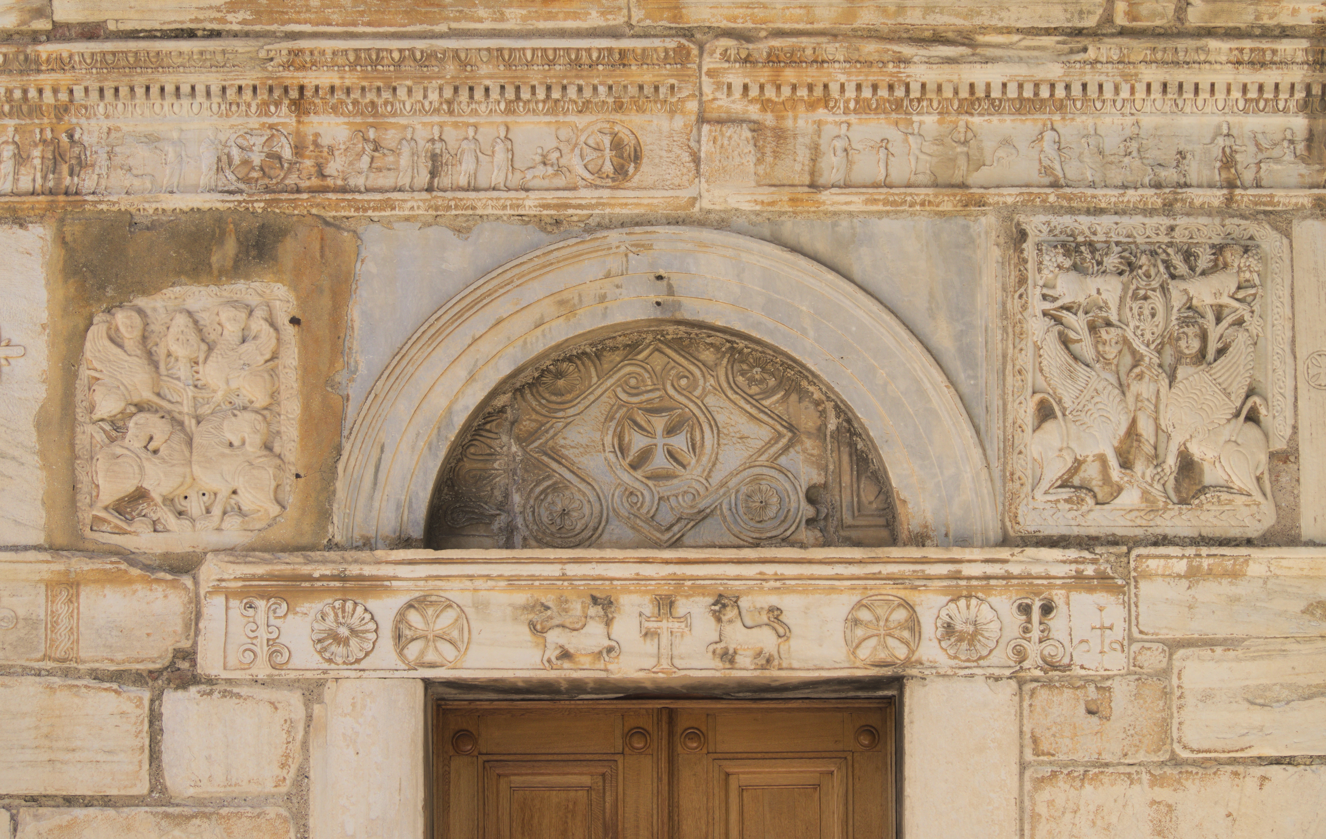 The reliefs that are embended at the facade of the byzantine church of Panagia Gorgoepikoos.